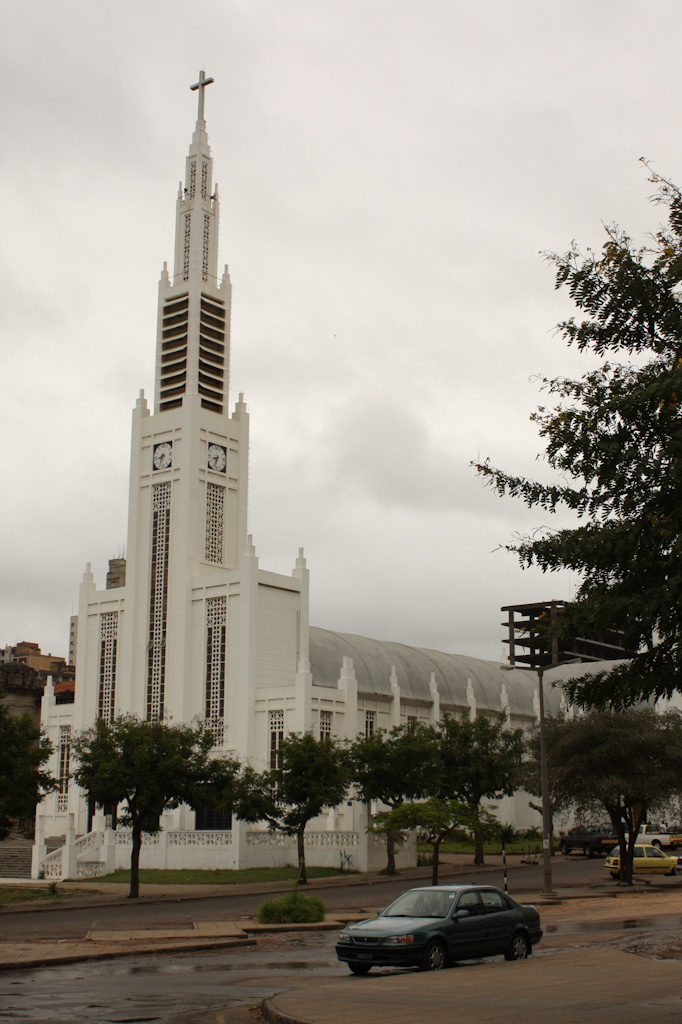 Cathedral of Maputo, Mozambique